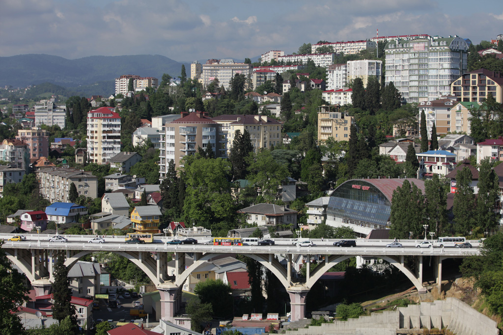 “22nd Russian film festival Kinotavr 2011. Day Six”. A view of Sochi from Zhemchuzhina hotel.